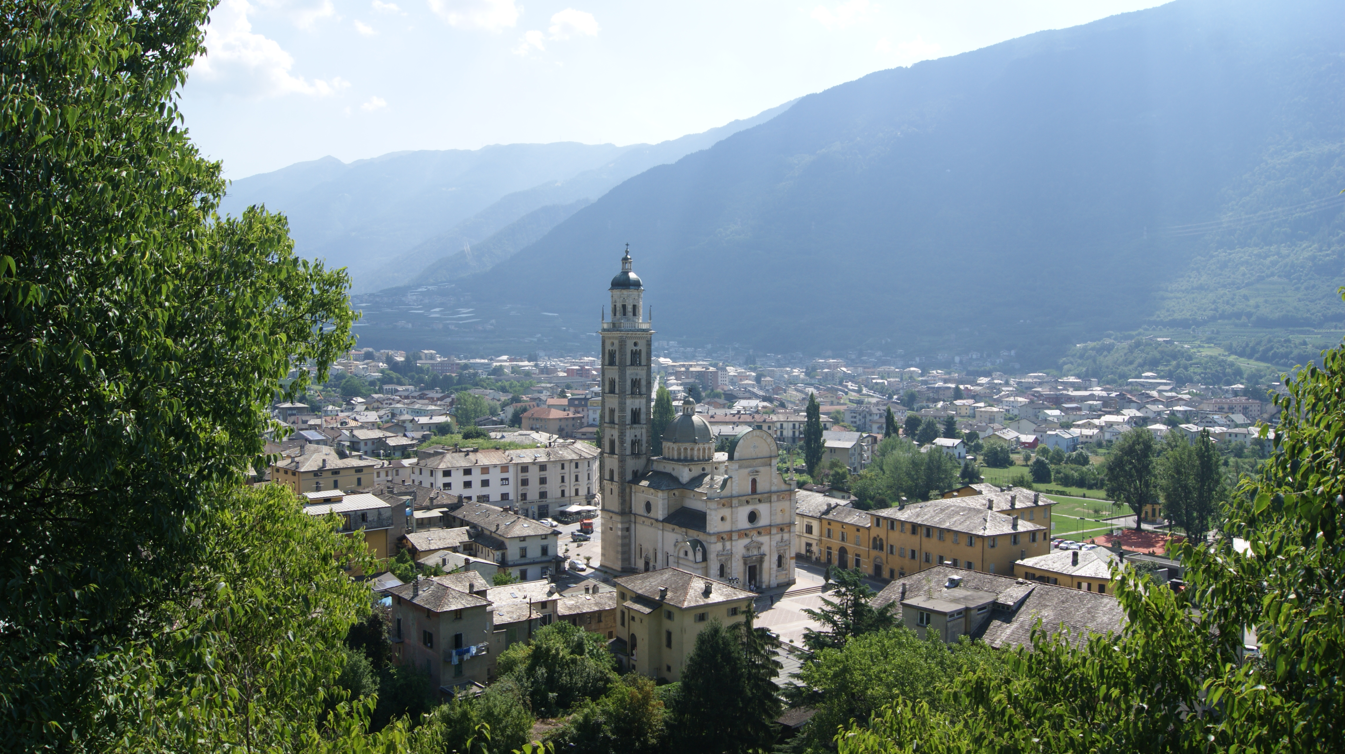 Sanctuary and Basilica Madonna di Tirano in Tirano, province Sondrio, region Lombardy in Italy.